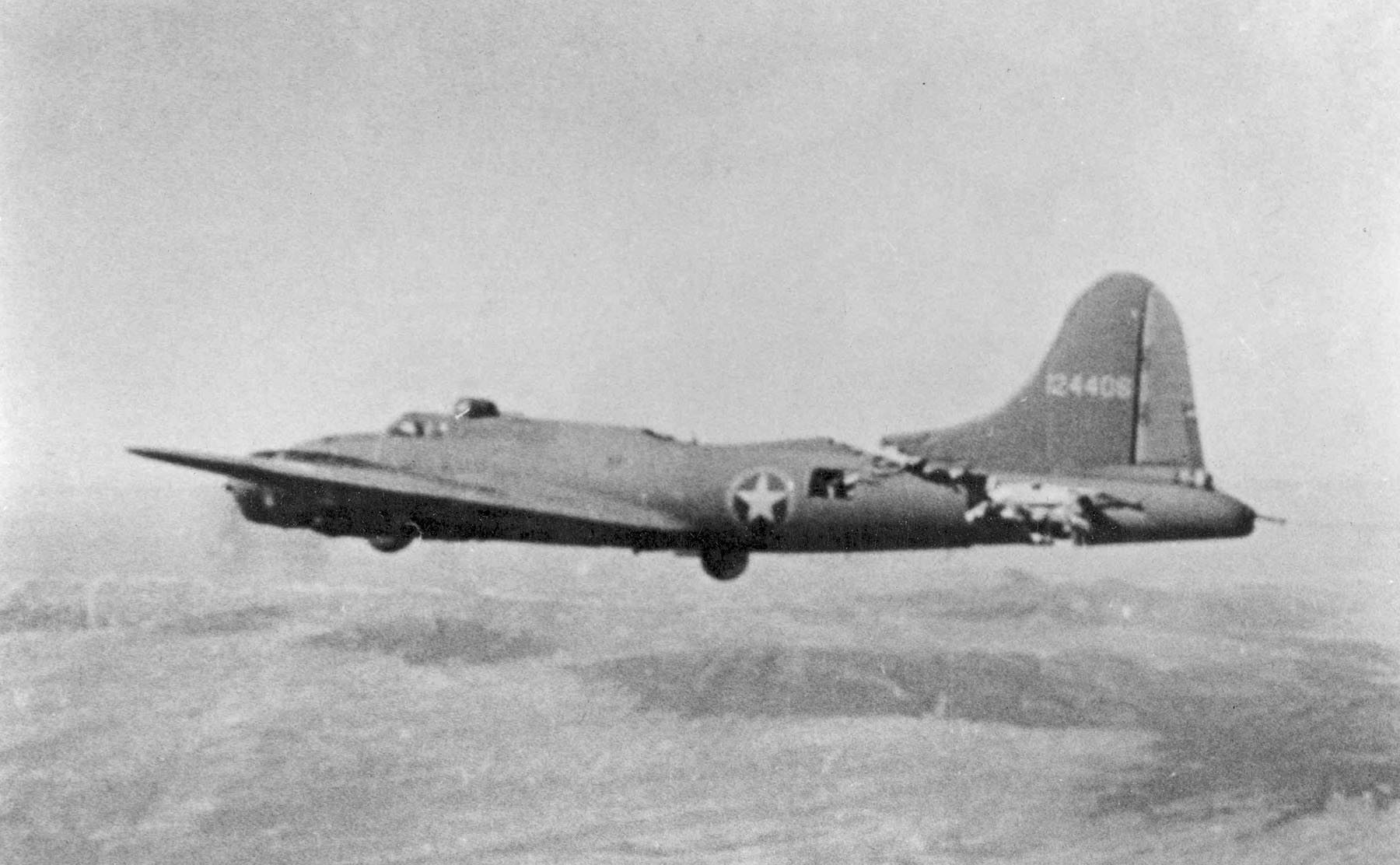 From the source: "Boeing B-17F Boeing B-17F-5-BO (S/N 41-24406) "All American III" of the 97th Bomb Group, 414th Bomb Squadron, in flight after a collision with an Me-109. The aircraft was able to land safely. (U.S. Air Force photo) " Uploader performed minor manual despeckling of original U.S. Air Force photo.